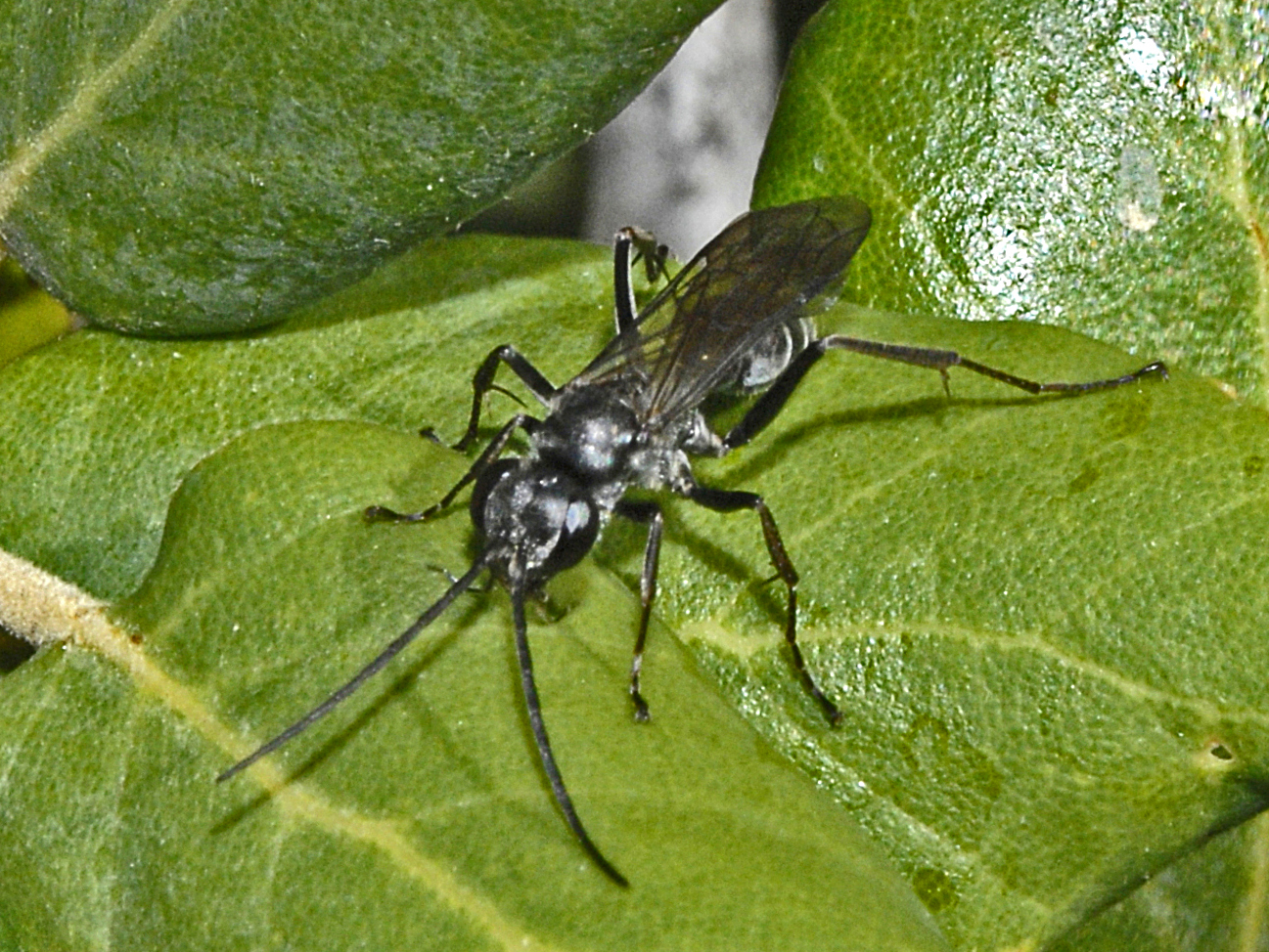 Male of Pompilus cinereus. Bogliasco, Genova, Italy